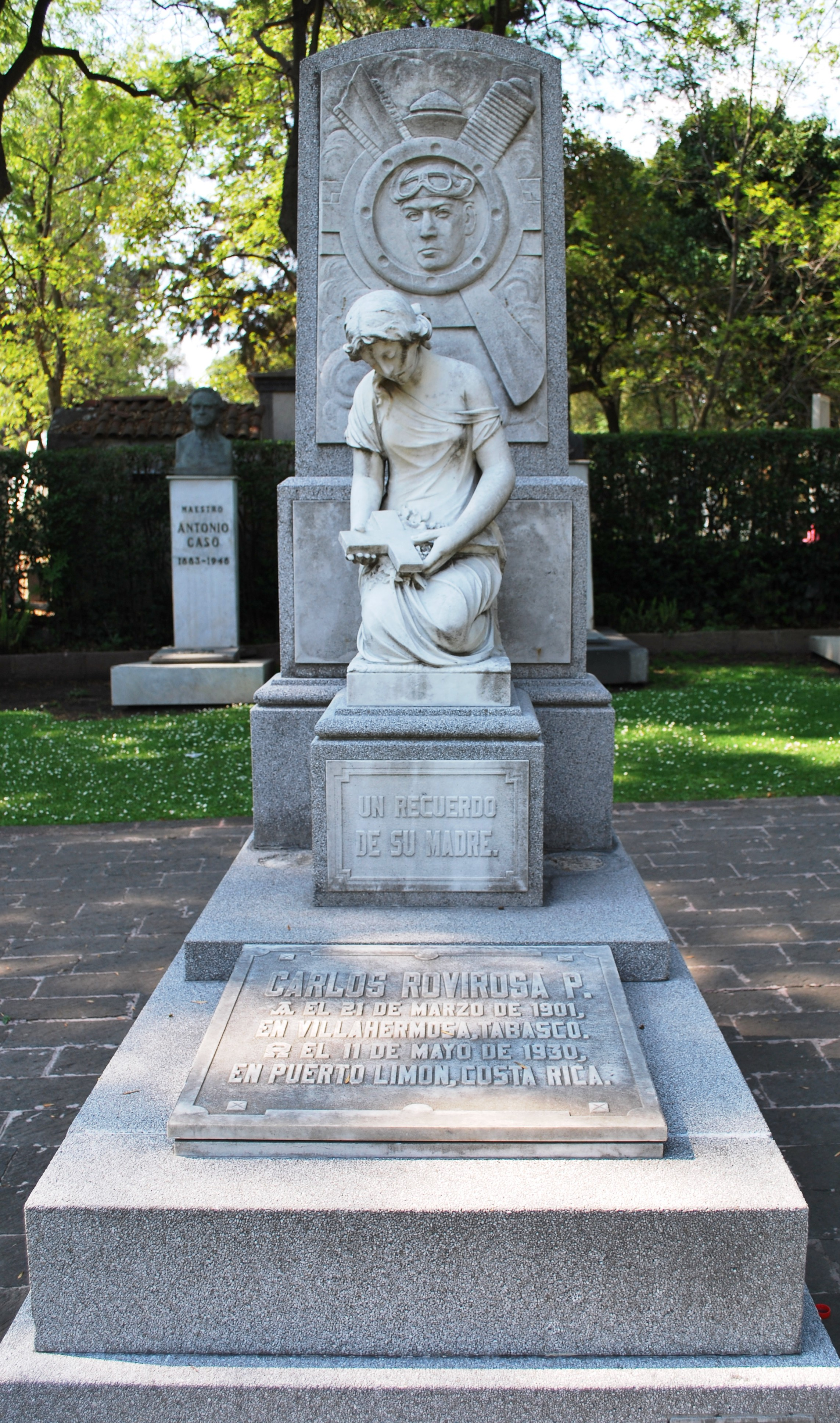 Tomb of Carlos Manuel Benito Rovirosa Perez. in the Panteon Civil de Dolores Cemetery in Mexico City.